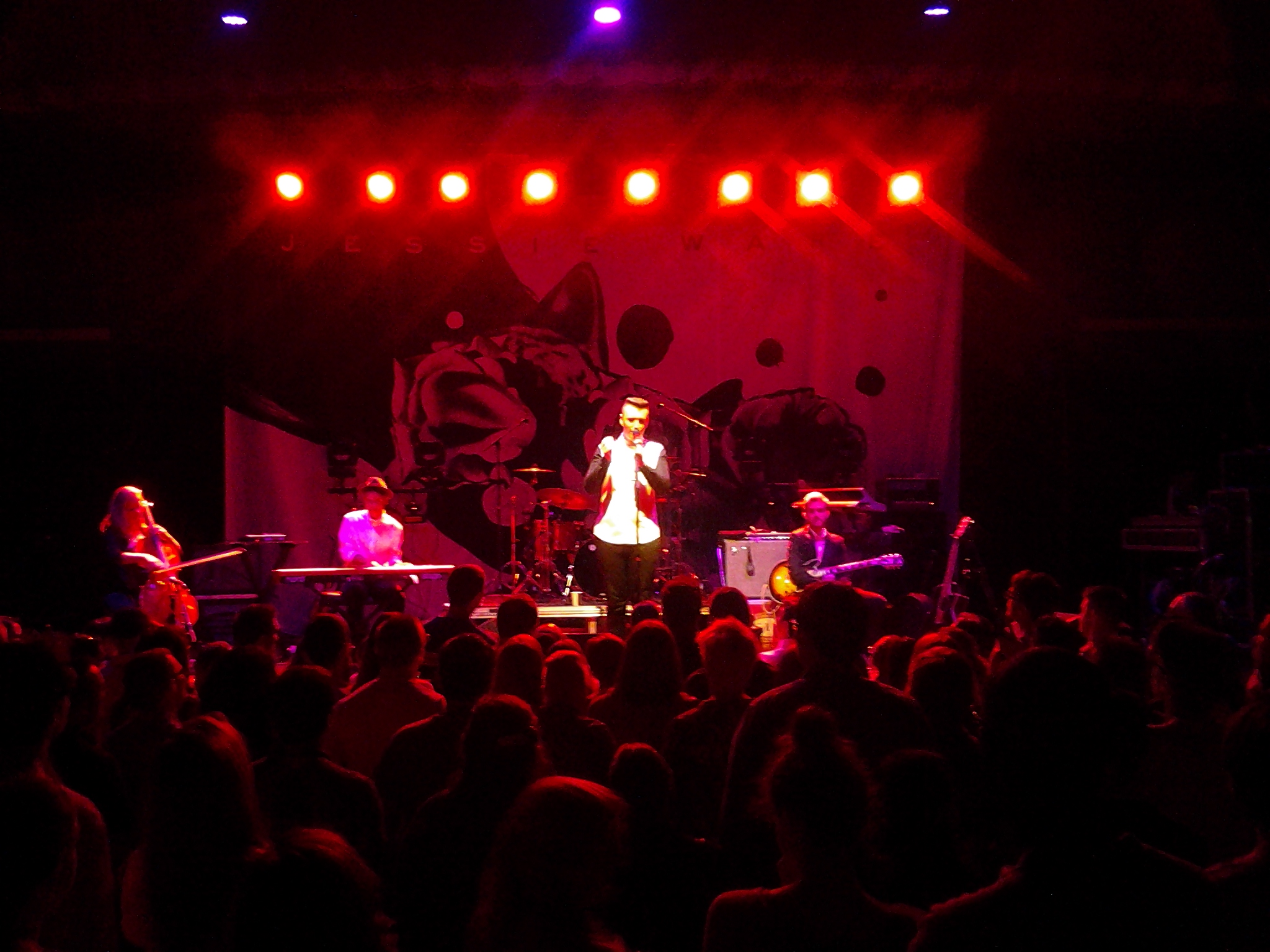 English singer Sam Smith playing at Royale in Boston August 5th 2013